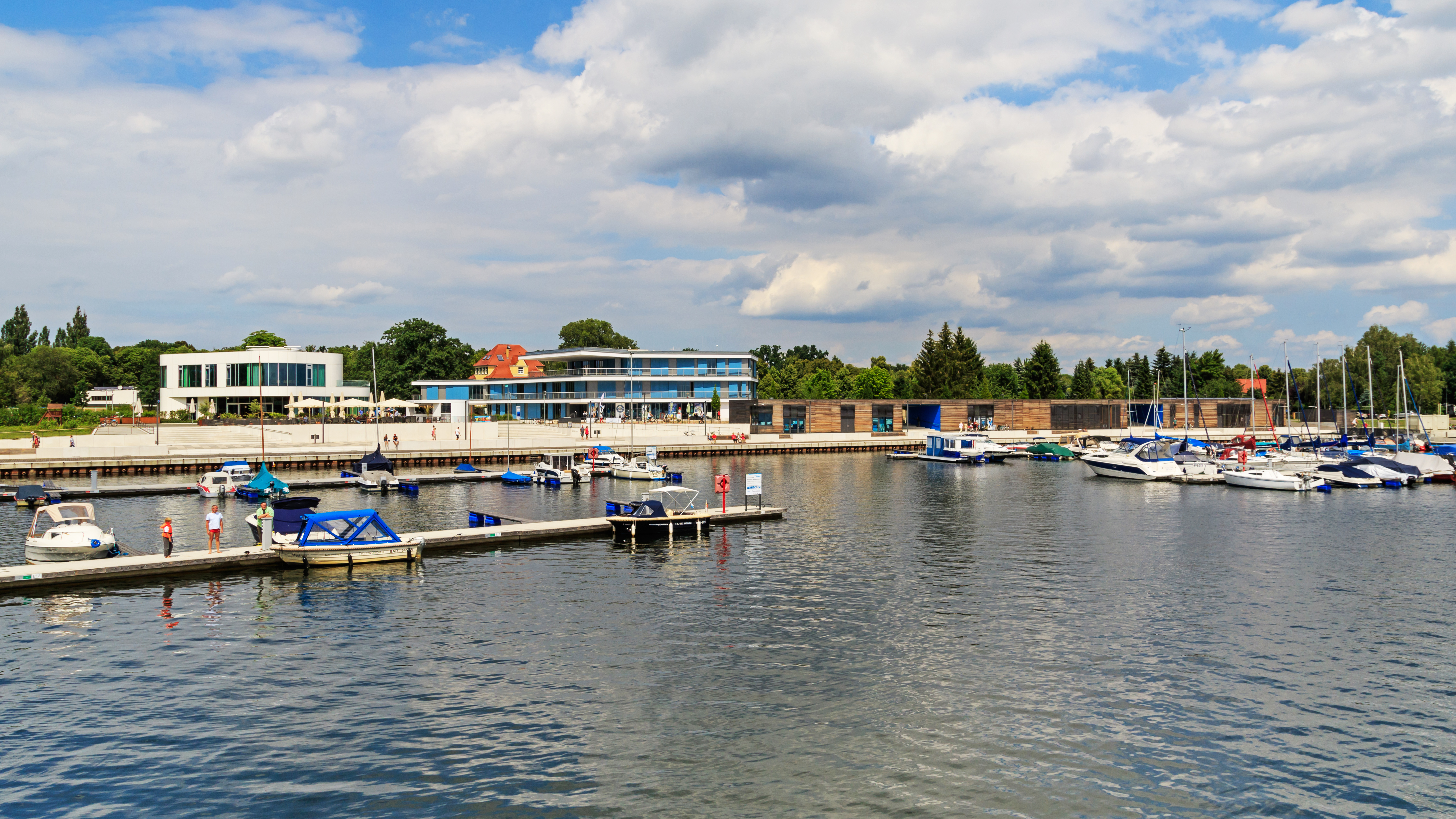 City harbour in Senftenberg, Brandenburg, Germany